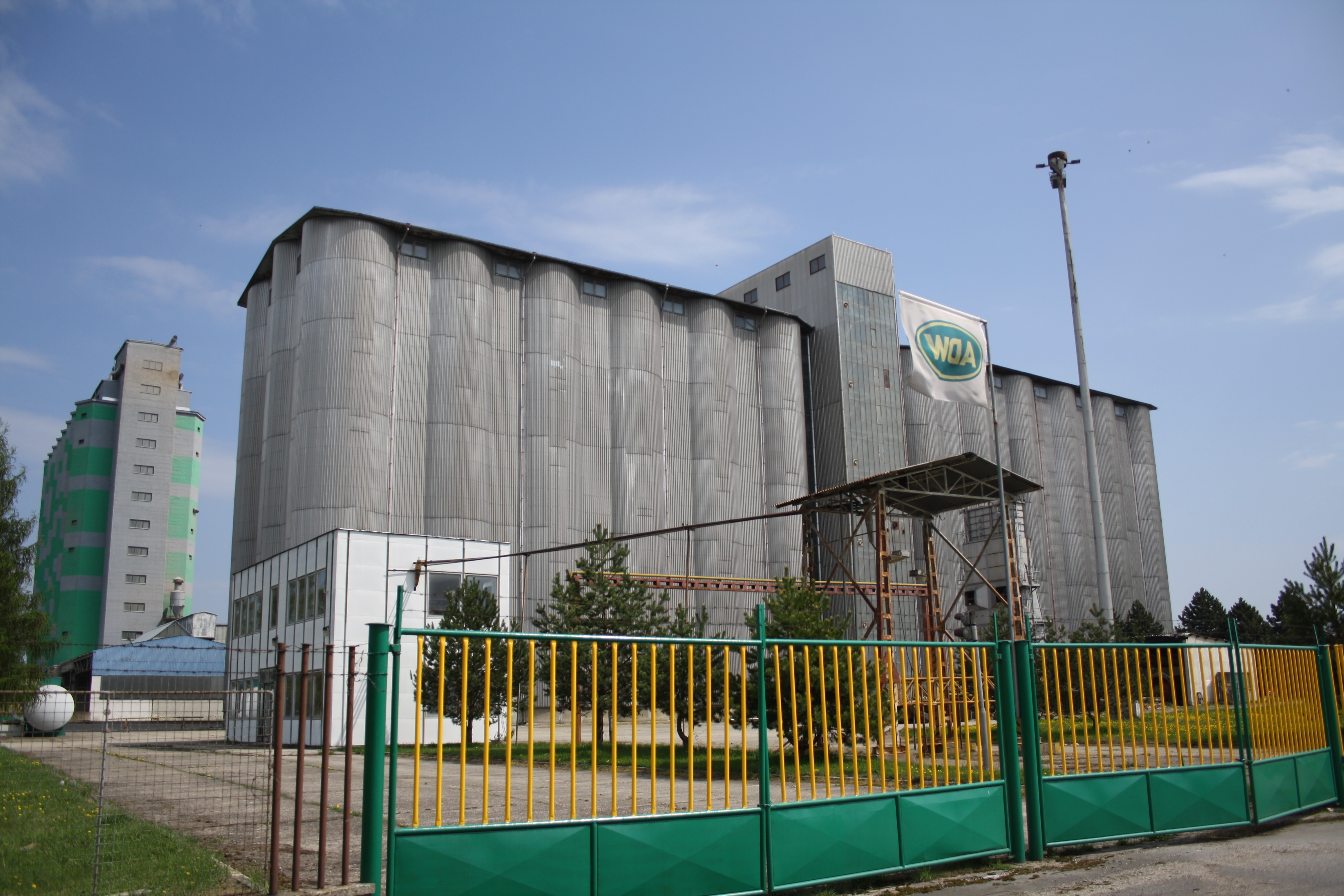 Silos near Krahulov, Czech Republic.